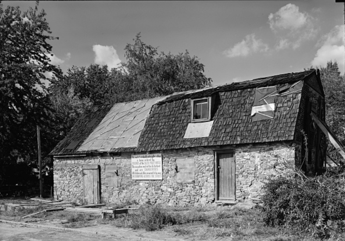 MAIN AND EAST ELEVATIONS BEFORE RESTORATION - Caleb Pusey House, 15 Race Street (Landingford Plantation), Upland, Delaware County, PA